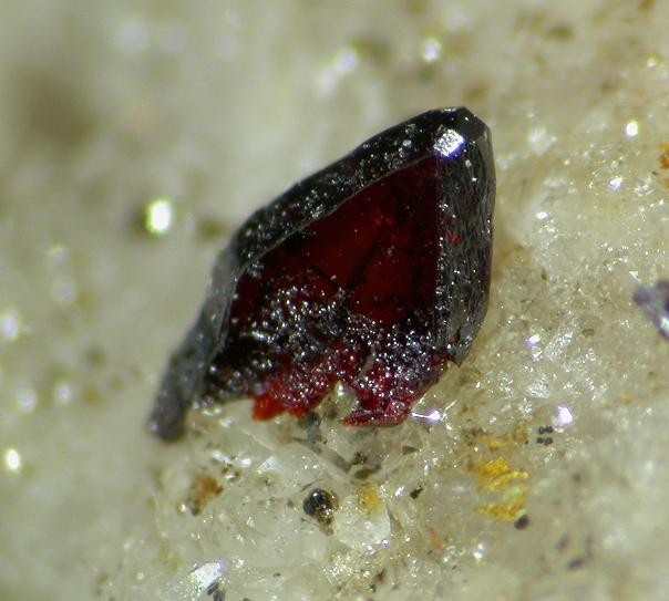 Pucherite Locality: Point 14.0, Hohenstein, Reichenbach, Bensheim, Odenwald, Hesse, Germany ex Klaus Petitjean collection. Field of view 4 mm. Specimen and photo Leon Hupperichs.